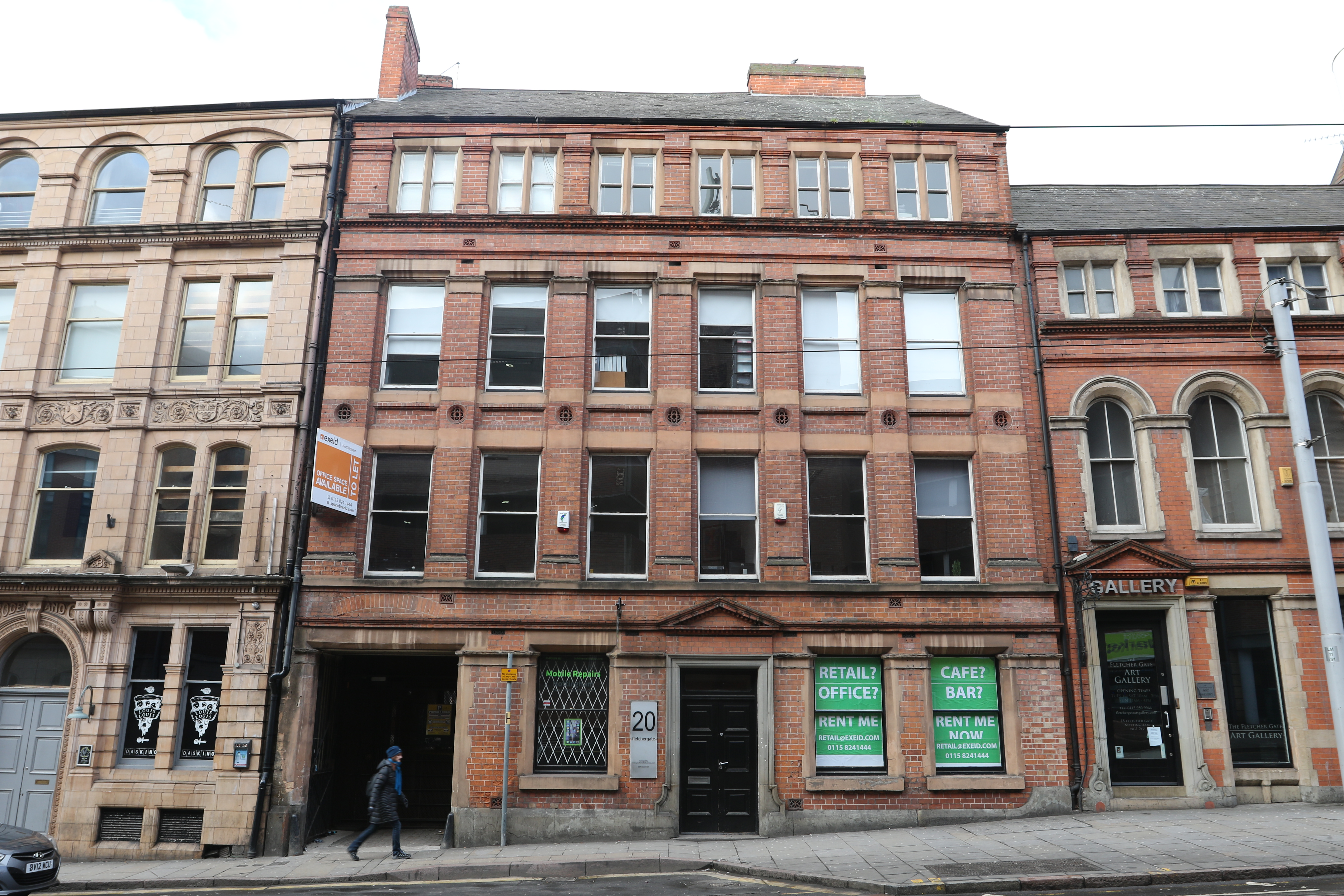 Warehouse of 1883 by W & Robert Booker